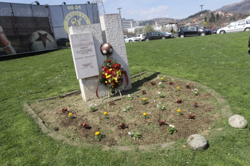 Spomen ploča ARBiH